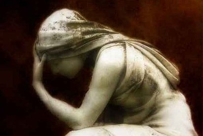 Mount Olivet Cemetery - Nashville, TN. View On BlackHighly Recommended. TEXTURE: "Texture 020" by SophieG* (flickr) CREATIVE COMMONS LICENSE: Attribution 2.0 Generic